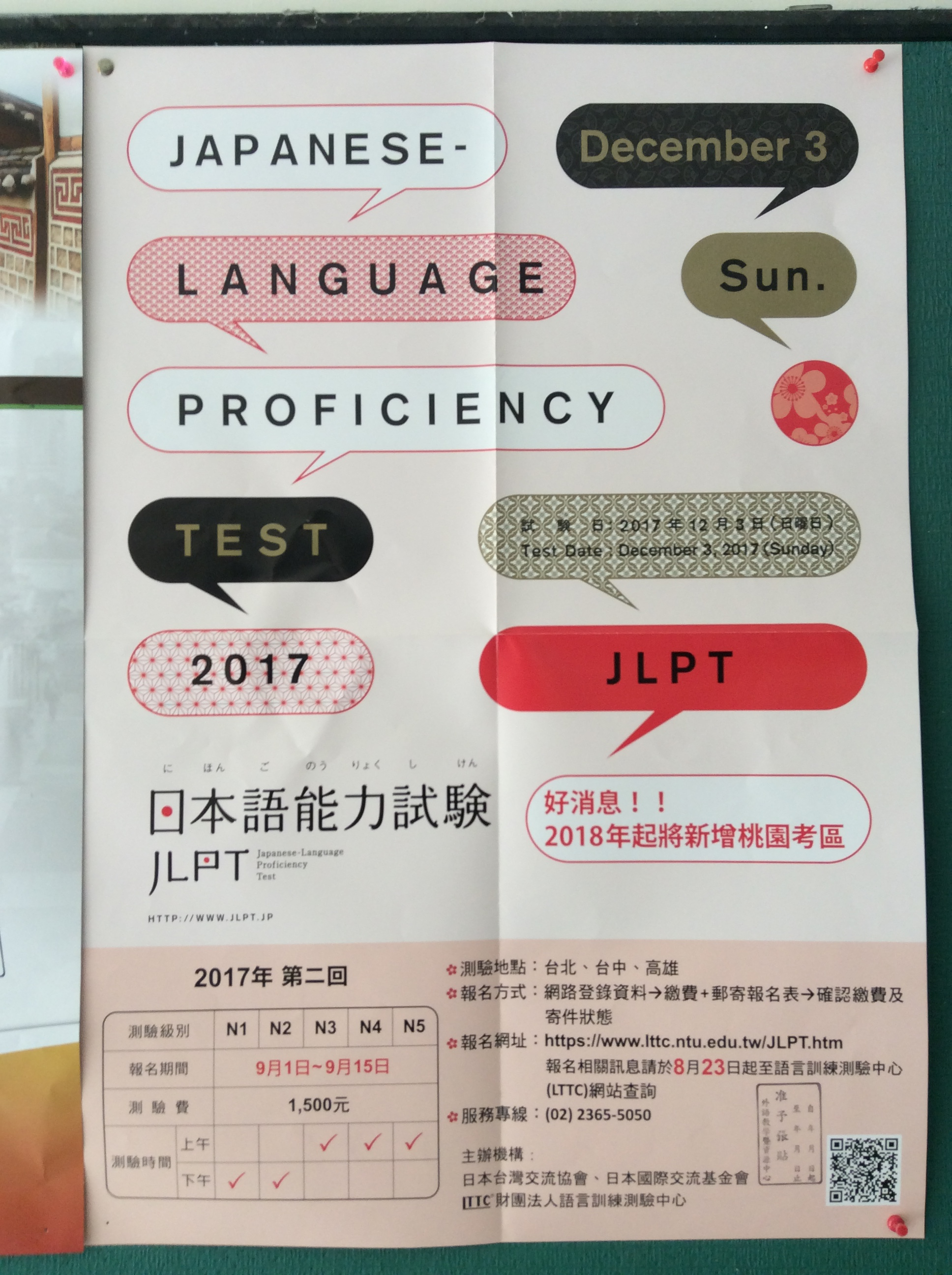 Poster of the Japanese Language Proficiency Test (JLPT).